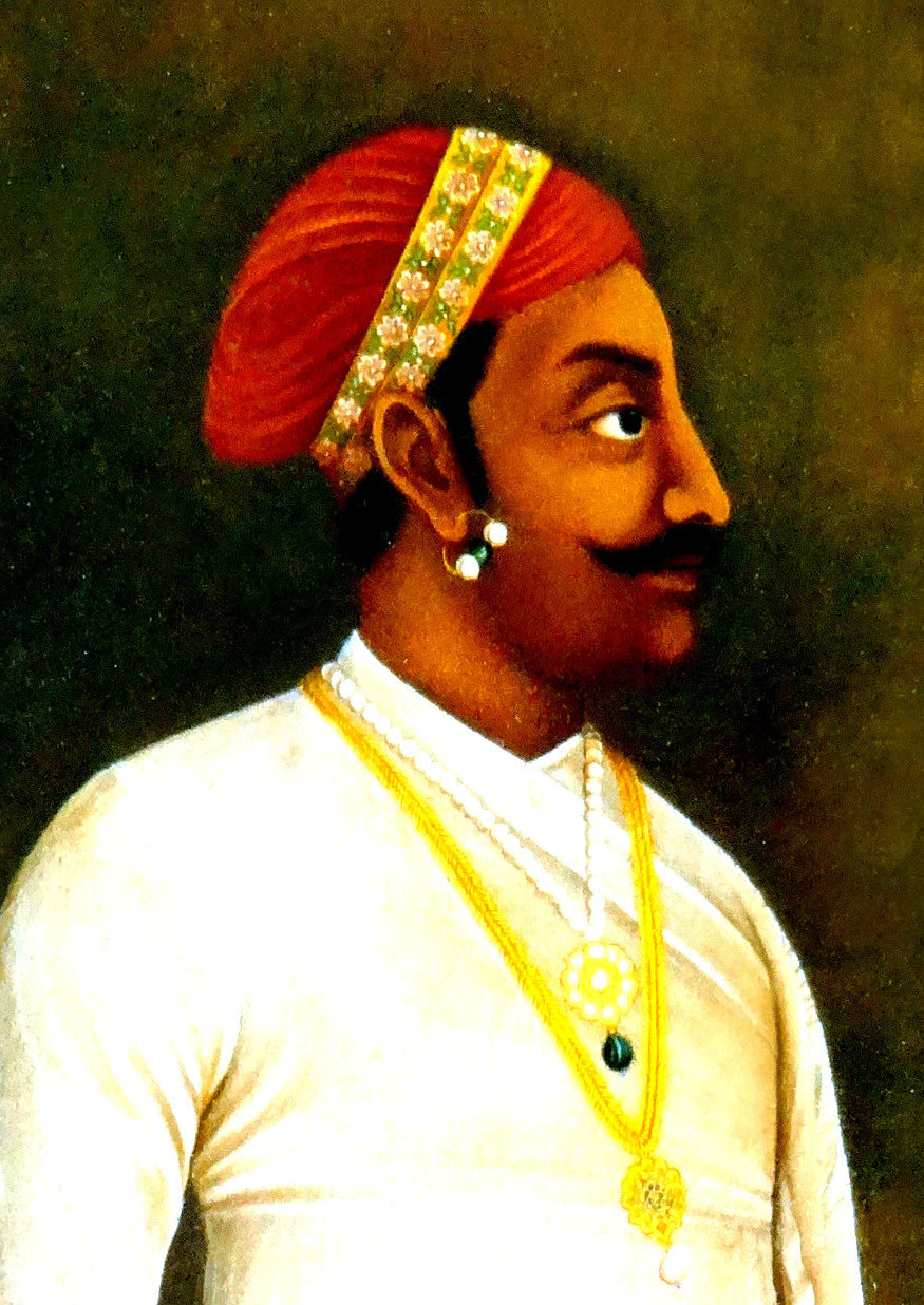 Dewan Karam Chand Bachhawat (1542-1607)